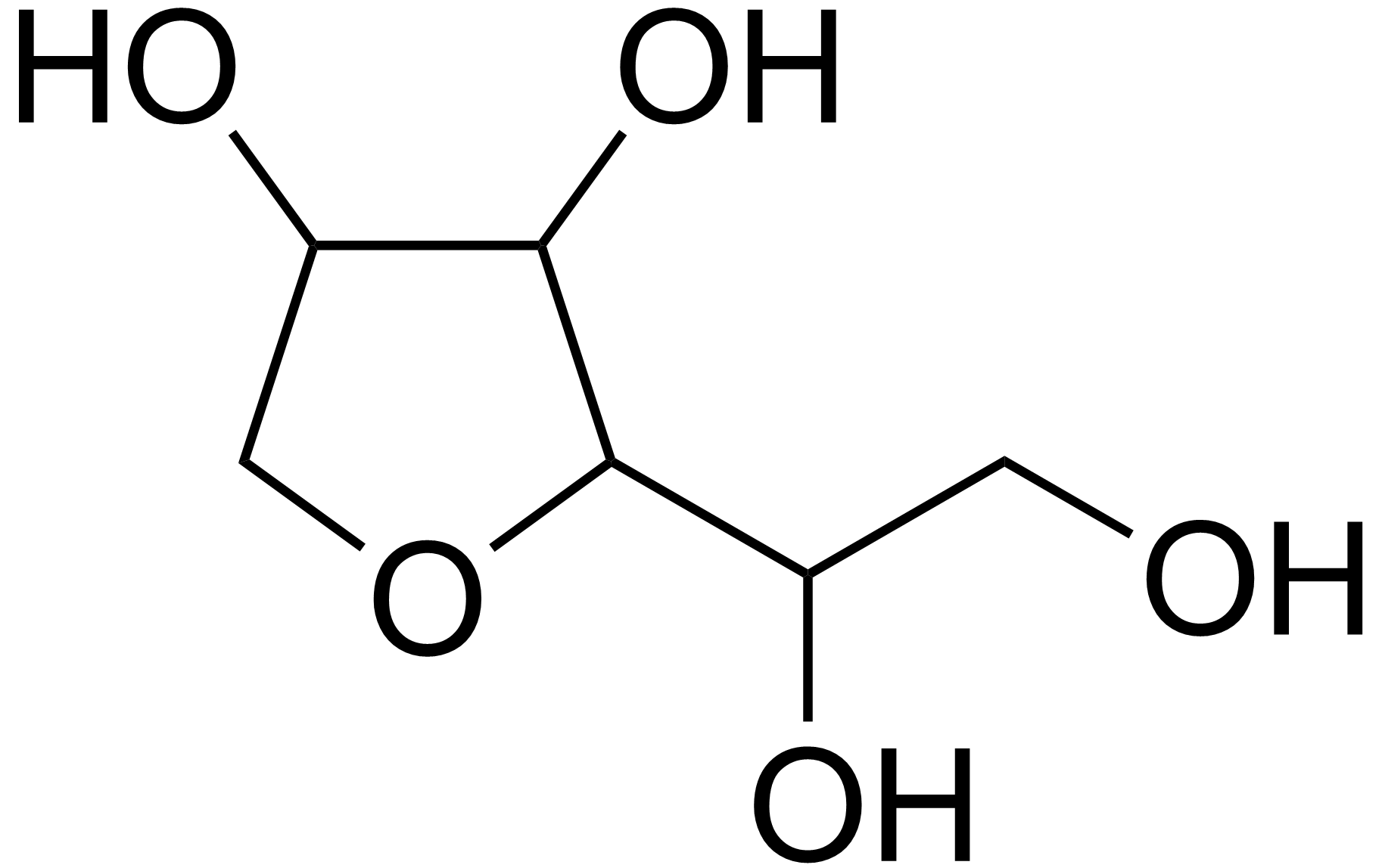 Chemical structure of sorbitan